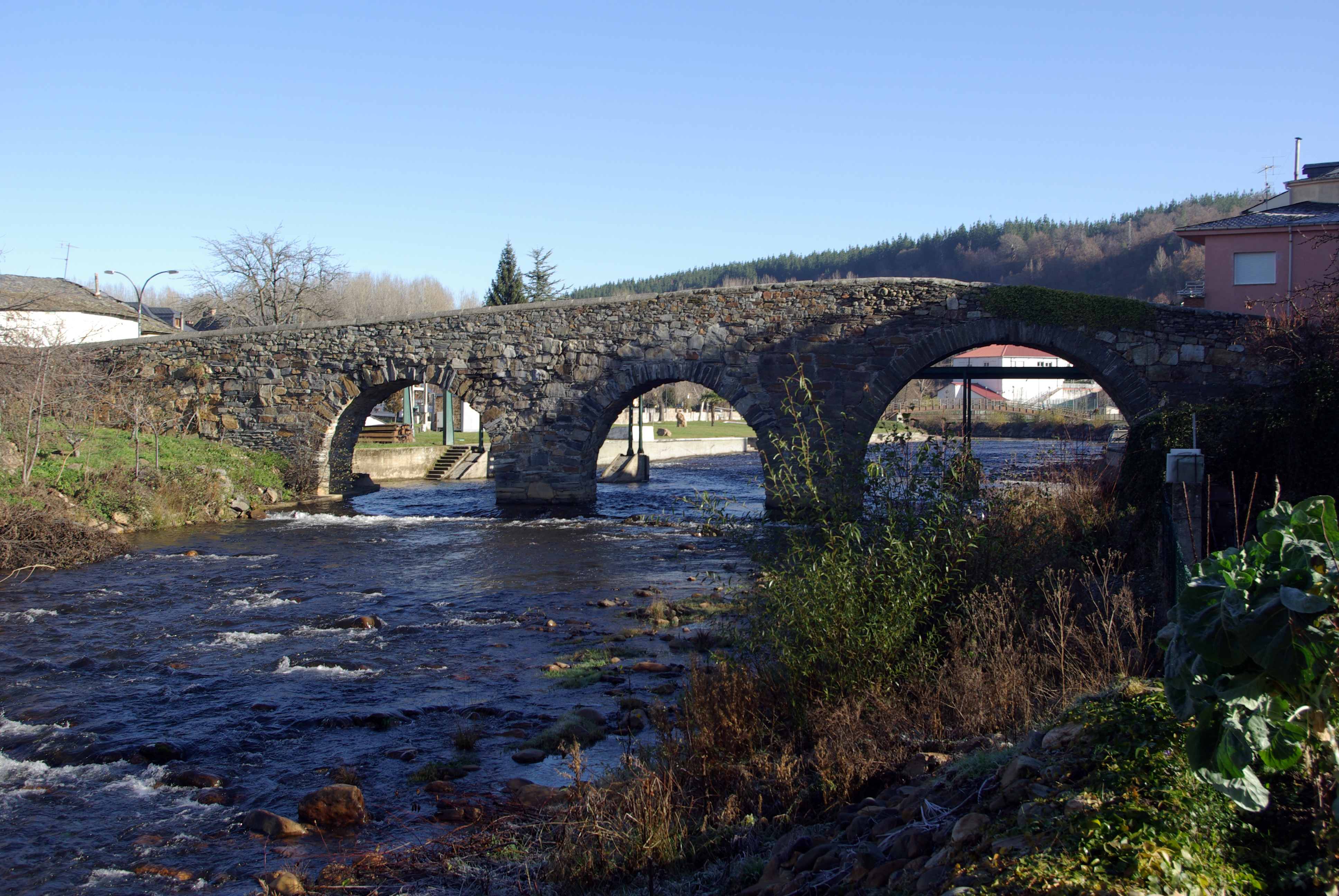 Medieval bridge over river Cúa in Vega de Espinareda, (León, Spain)